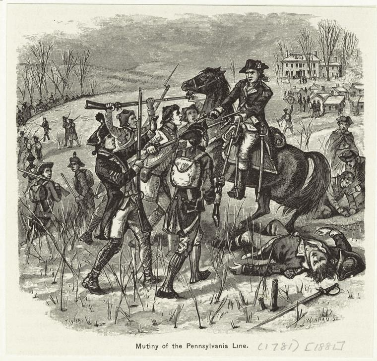 Woodcut of a scene in the Pennsylvania Line Mutiny.